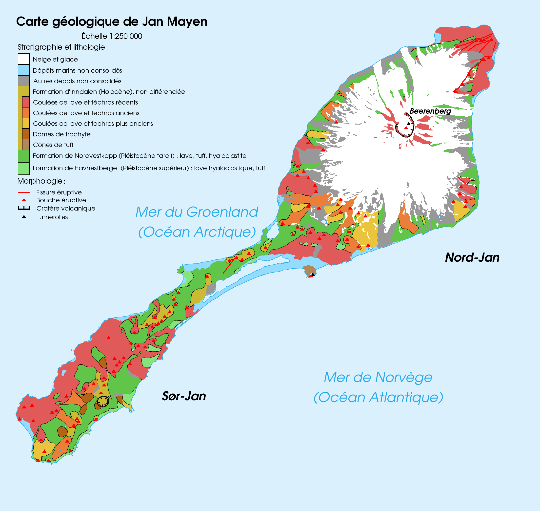 Geological map of Jan Mayen, Norway